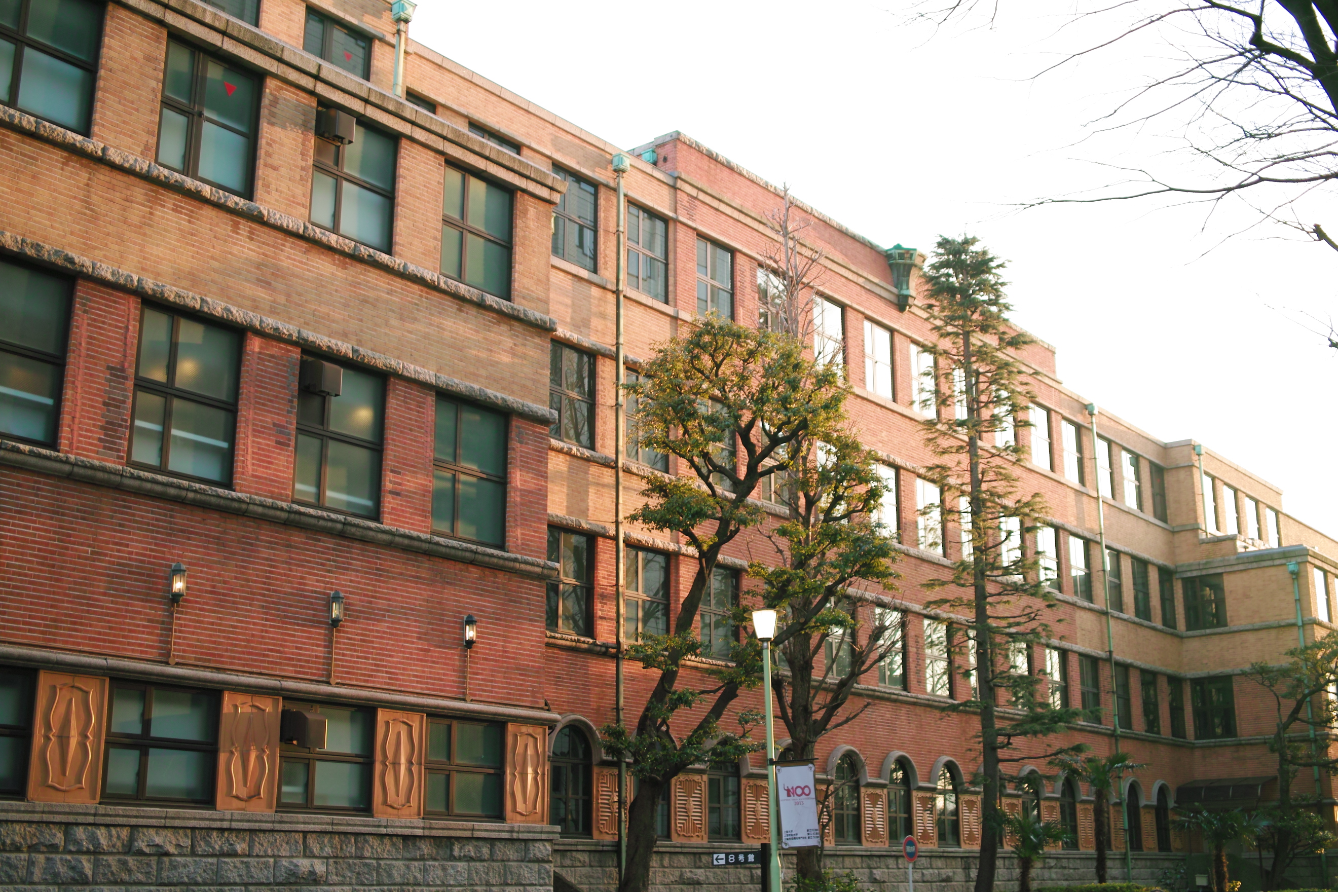 Sophia University Yotsuya Campus